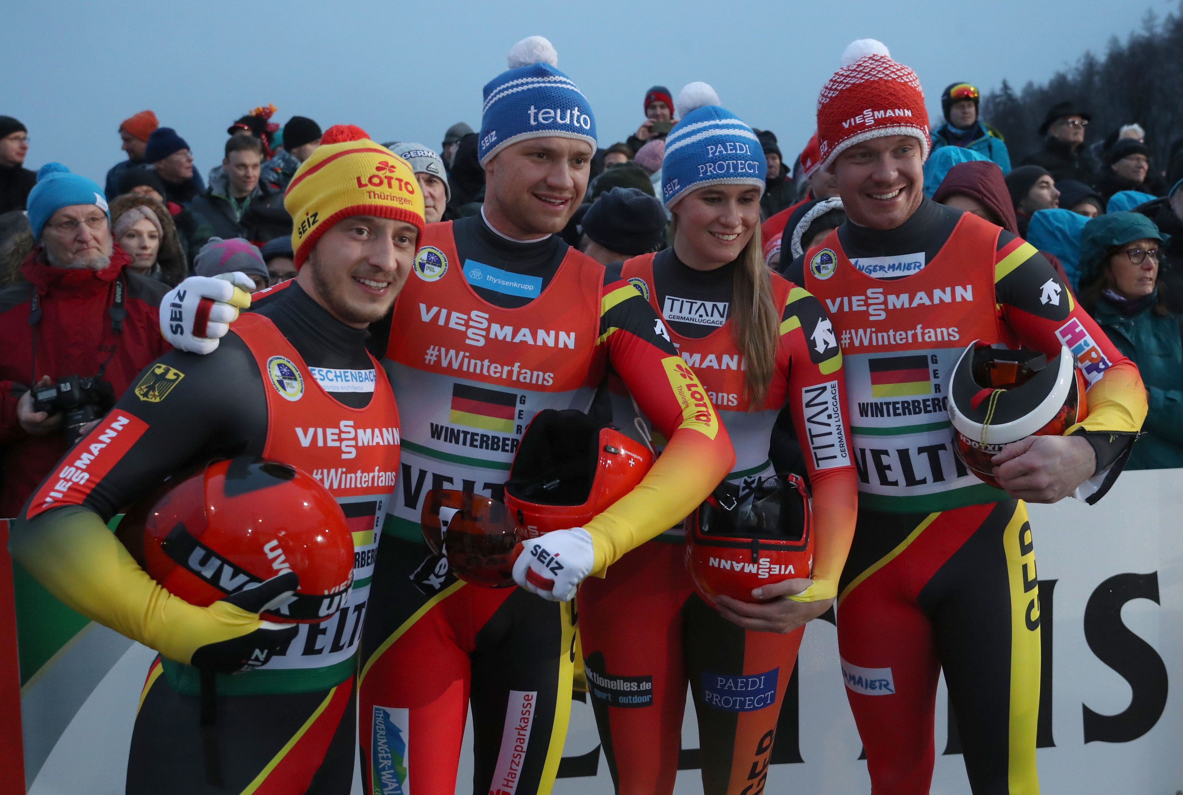 Team Relay at the FIL World Luge Championships 2019 in Winterberg